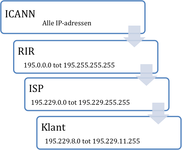 Hiërarchical IP-address structure